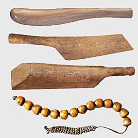 Plumber's tools for the work of the lead.